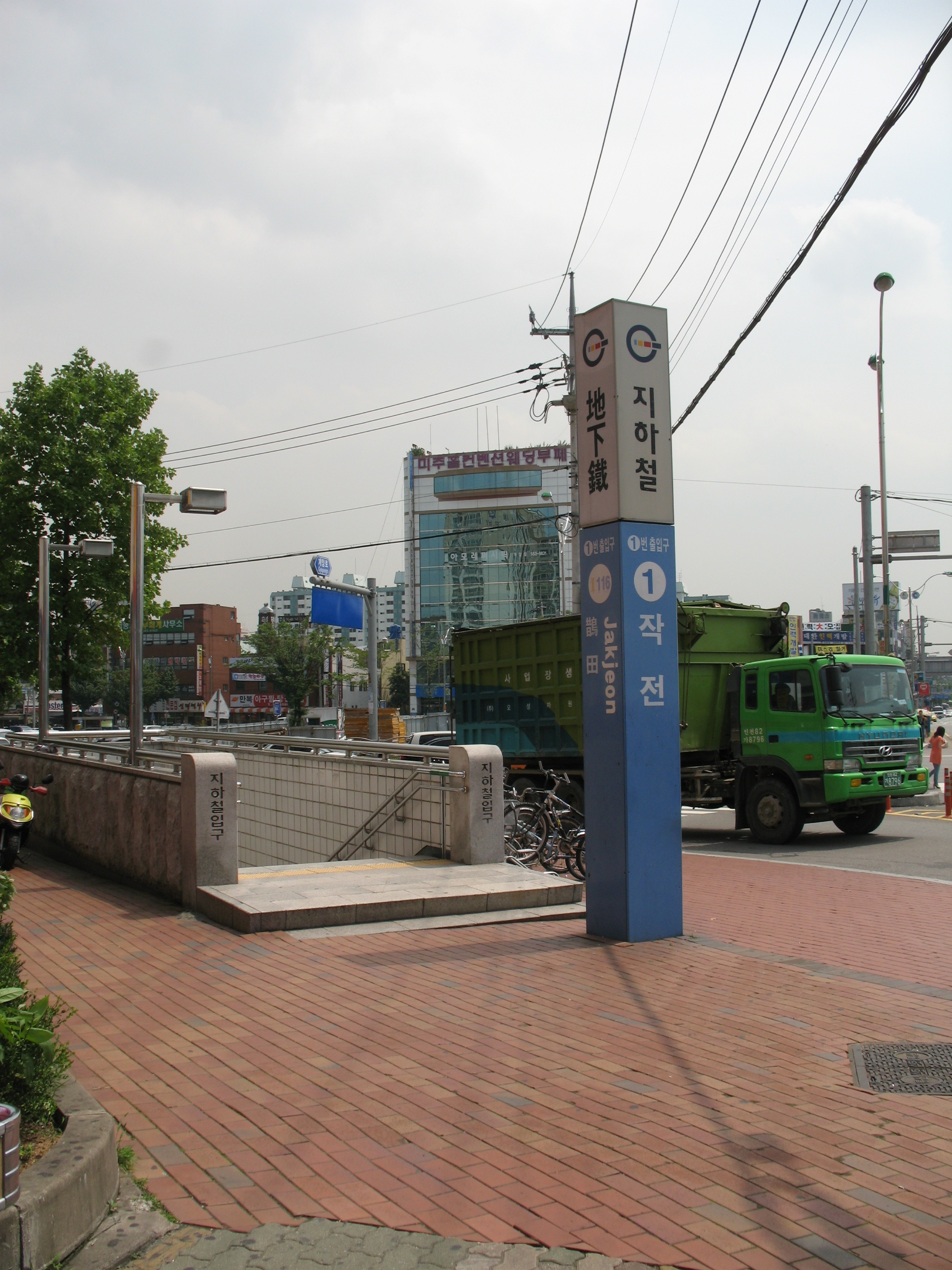 Incheon Subway Line 1 Jakjeon Station